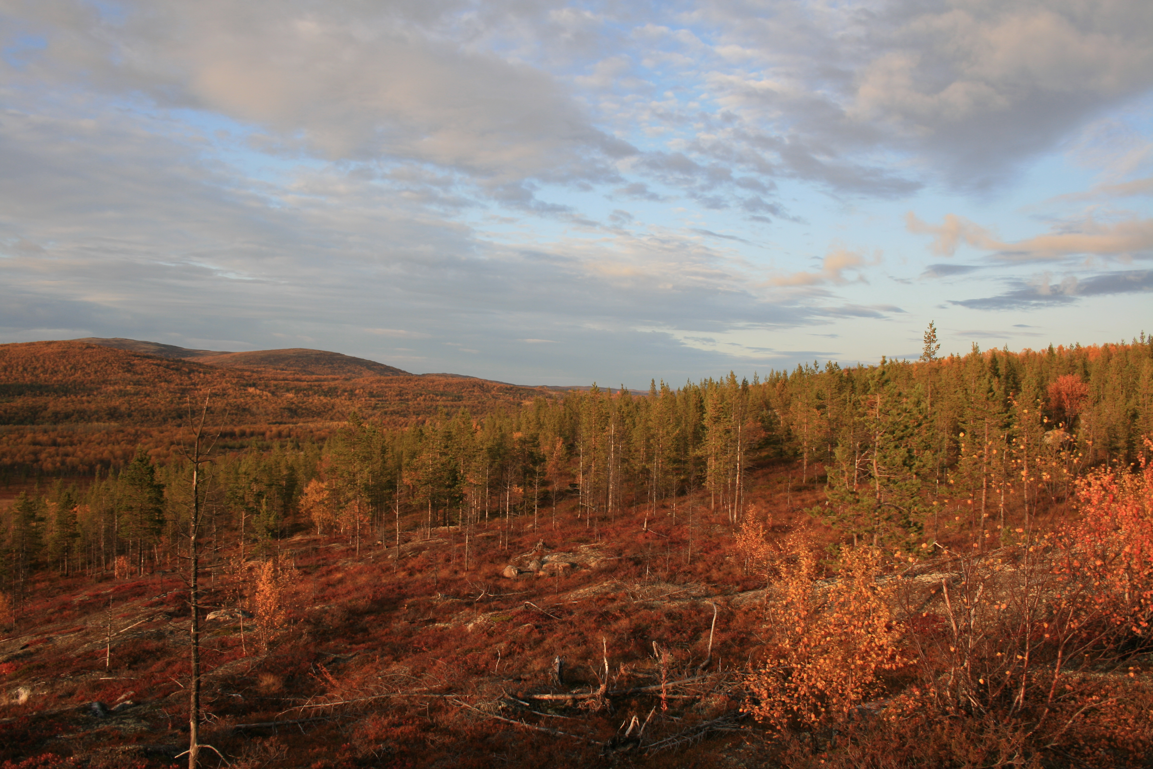 Outskirts of Murmansk